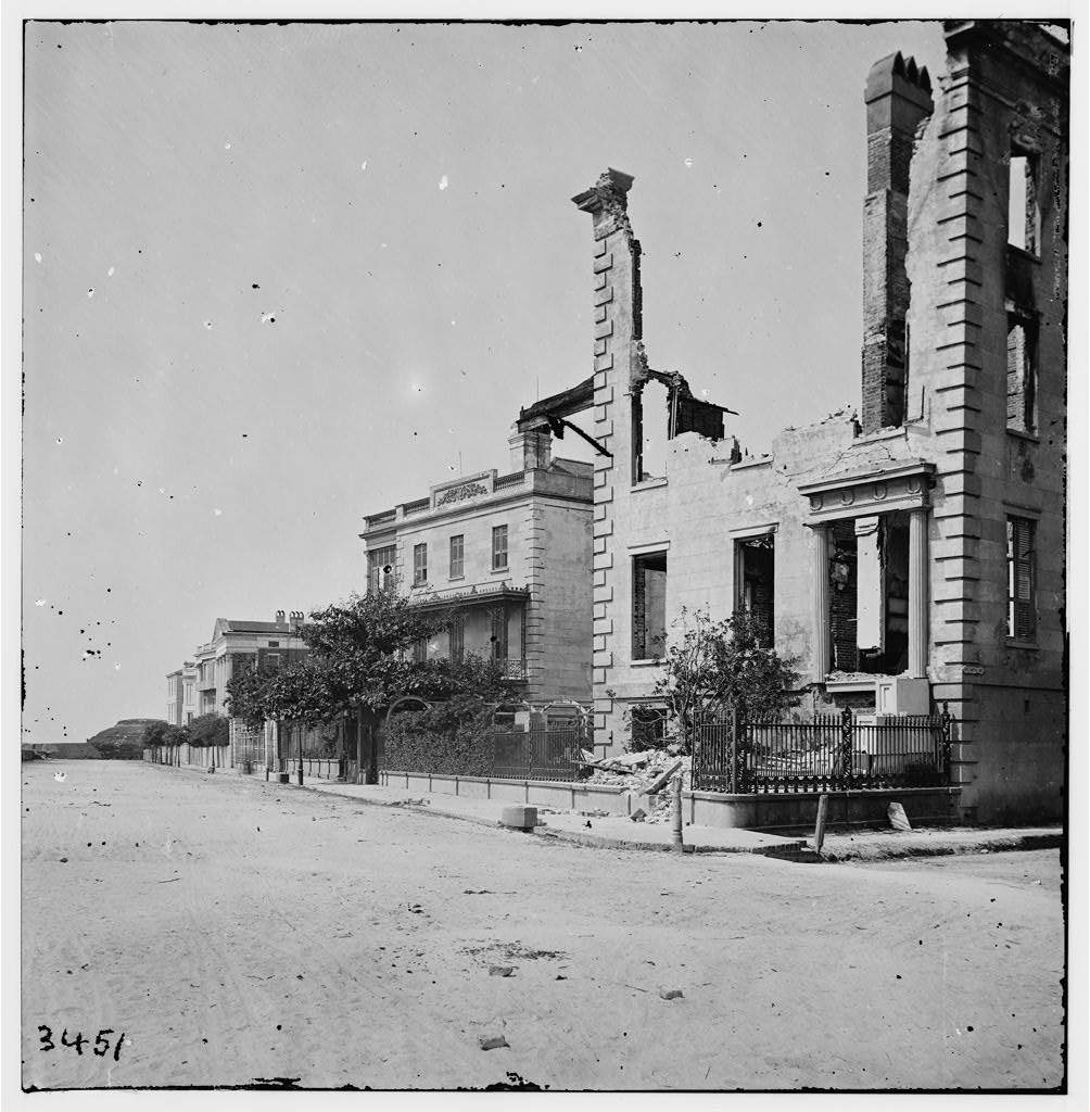 View of the Battery in Charleston, Charleston County, South Carolina, showing houses damaged by shell-fire, April 1865. The Library of Congress, Washington, D. C.